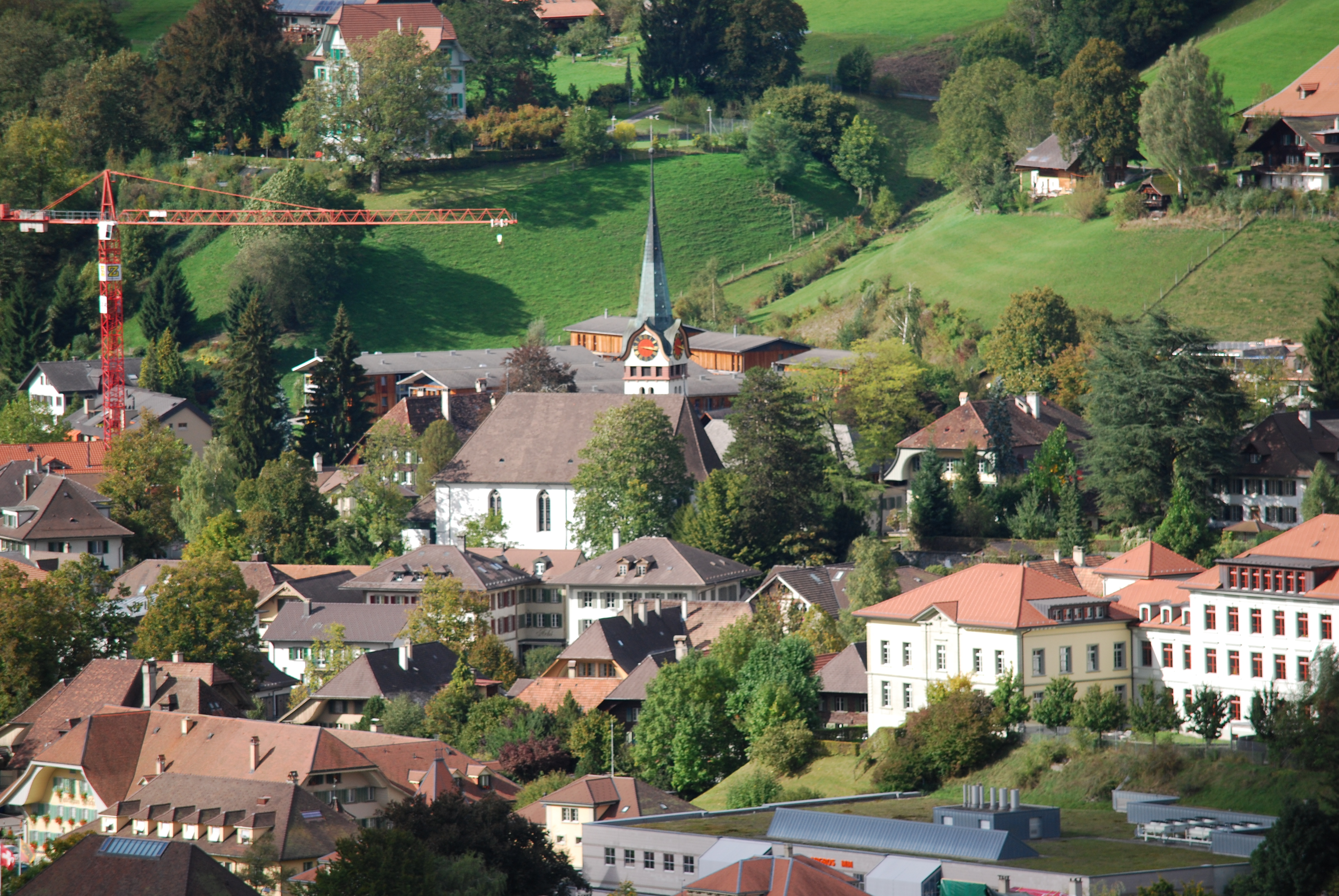 Protestant church of Langnau in the Emme Valley, canton of Bern, Switzerland